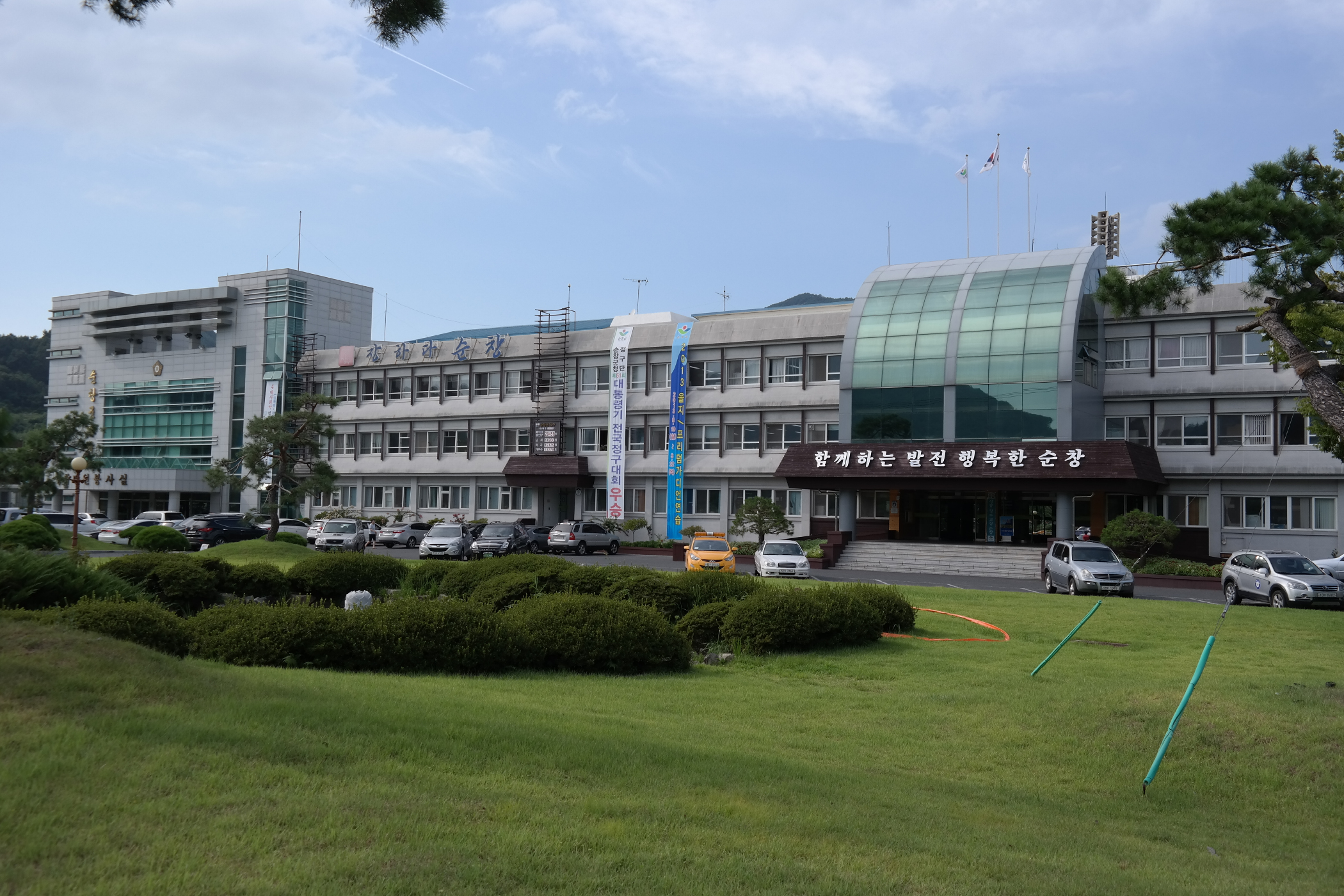 Sunchang County Office (right) and County Council (left)